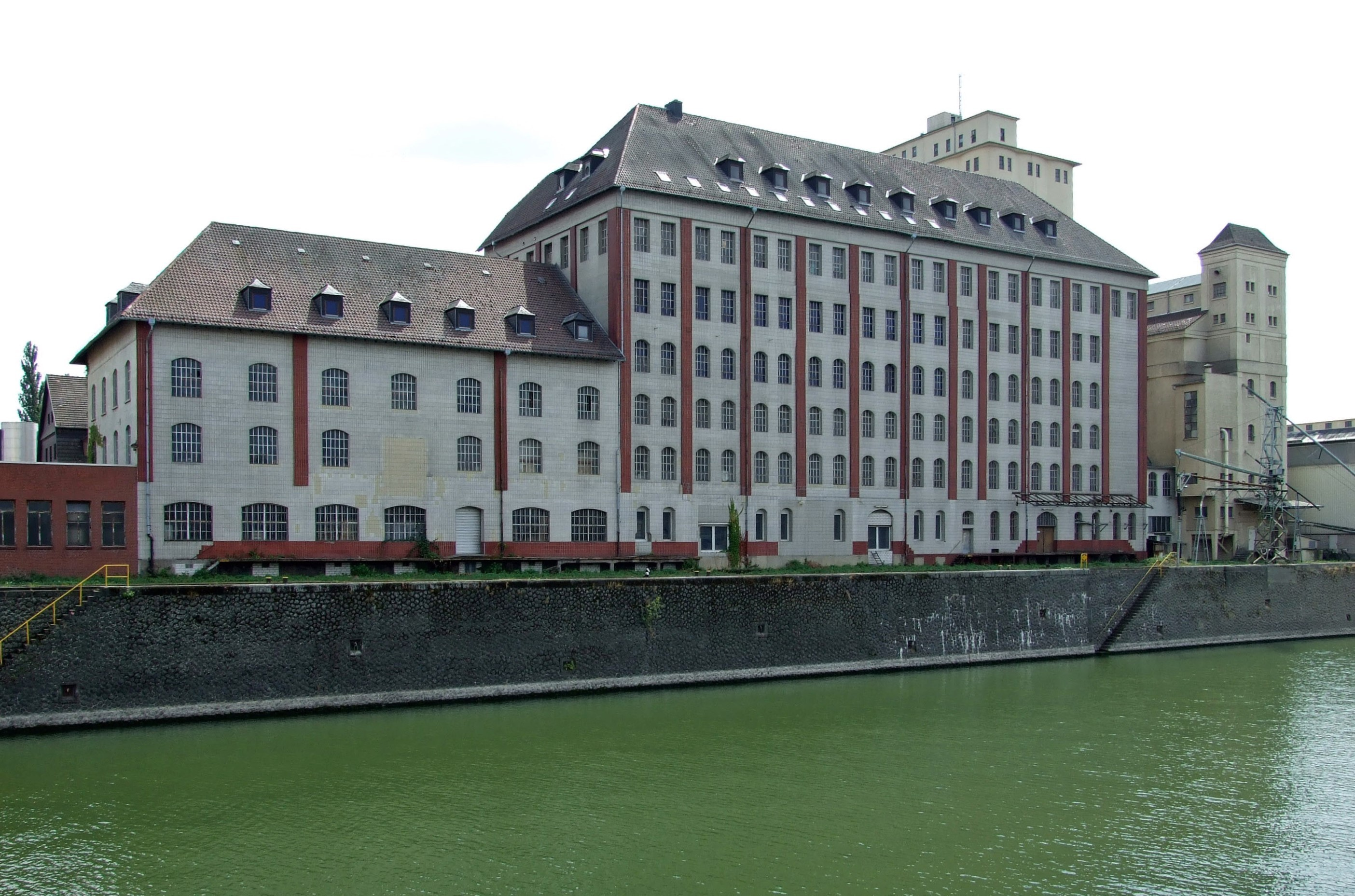 Old storehouse at Osthafen in Frankfurt am Main Ostend